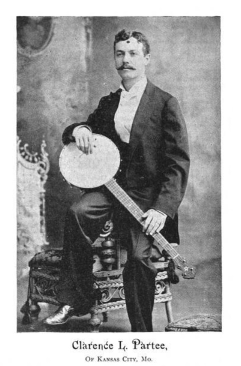 Photo of Clarence L. Partee, 1898, from Loomis' Musical Journal.